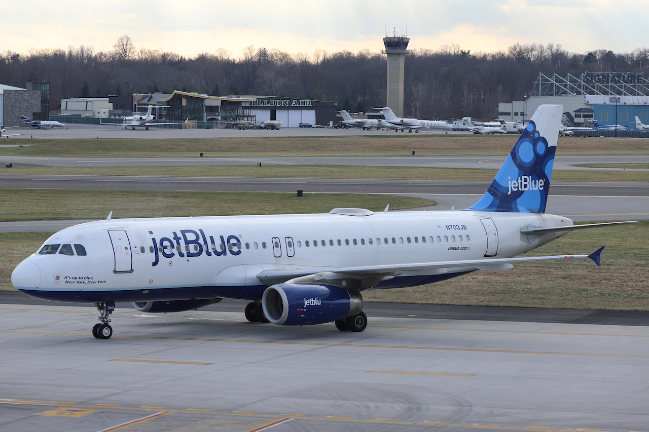 A JetBlue Airways A320 at Westchester County Airport.